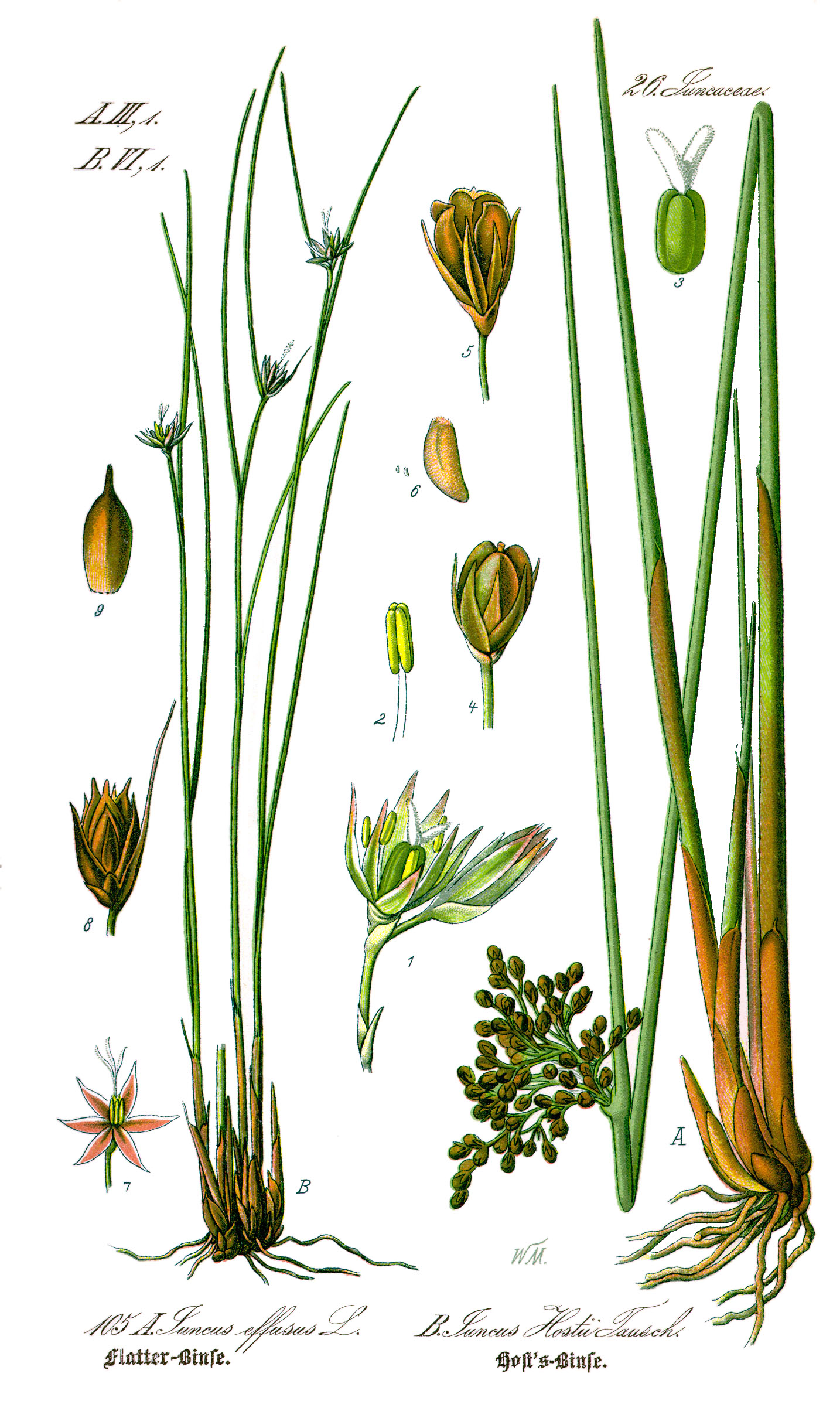 A: Juncus trifidus subsp. hostii Hartm., syn. Juncus hostii Tausch B: Juncus effusus L.